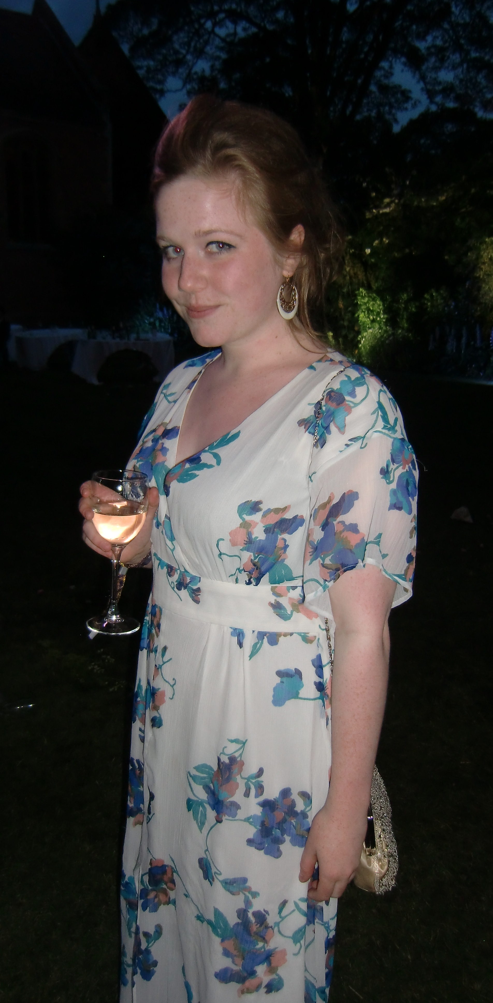 Lulu Popplewell in the Magdalene College May Ball, 2011.